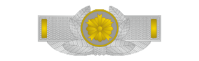 Brooch rank insigna for policeman of japanese police